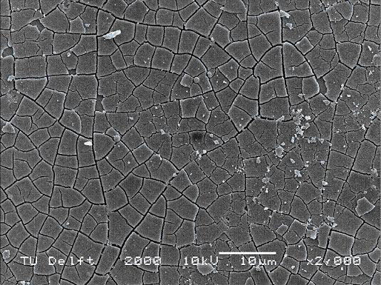 This picture of the microstructure of zinc oxide (ZnO) is made by me in 2001, for a third year's assignment in Materials Science. It is a thin ZnO layer, deposited on quartz, observed using SEM. This picture might possibly be related to Afbeelding:Röntgendiffractiepatroon.gif on the Dutch wikipedia. However, I'm not sure if this is really true.